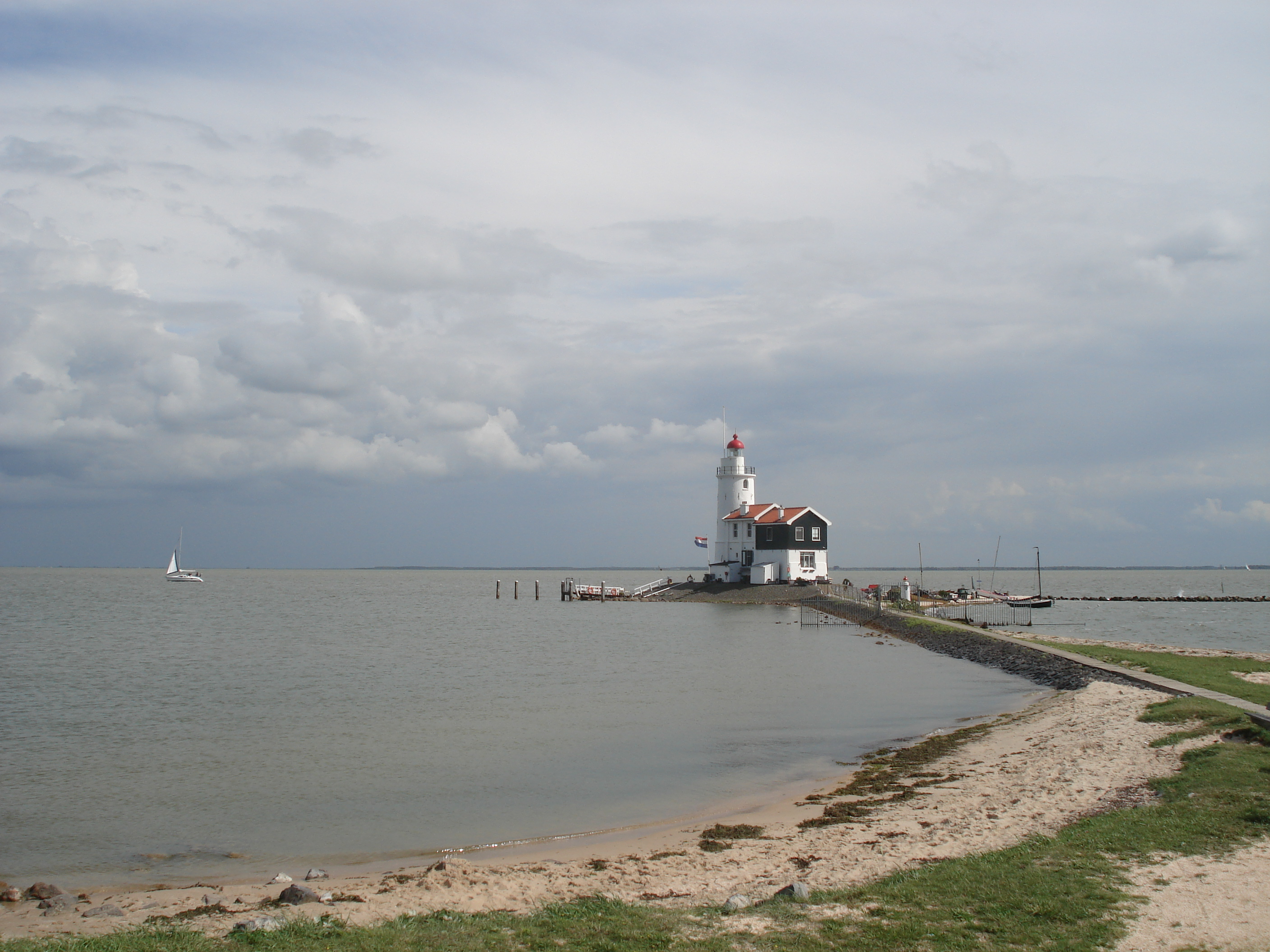 The famous Lighthouse (Paard van Marken "Marken horse") near the village of Marken